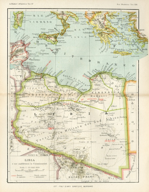 Administrative subdivision of Italian Libya, from "Atlantino storico" (1938) by prof. Arcangelo Ghisleri (1855-1938).